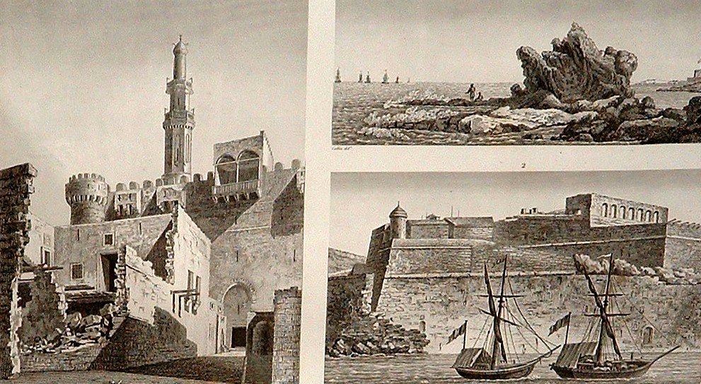 Alexandria old drawings